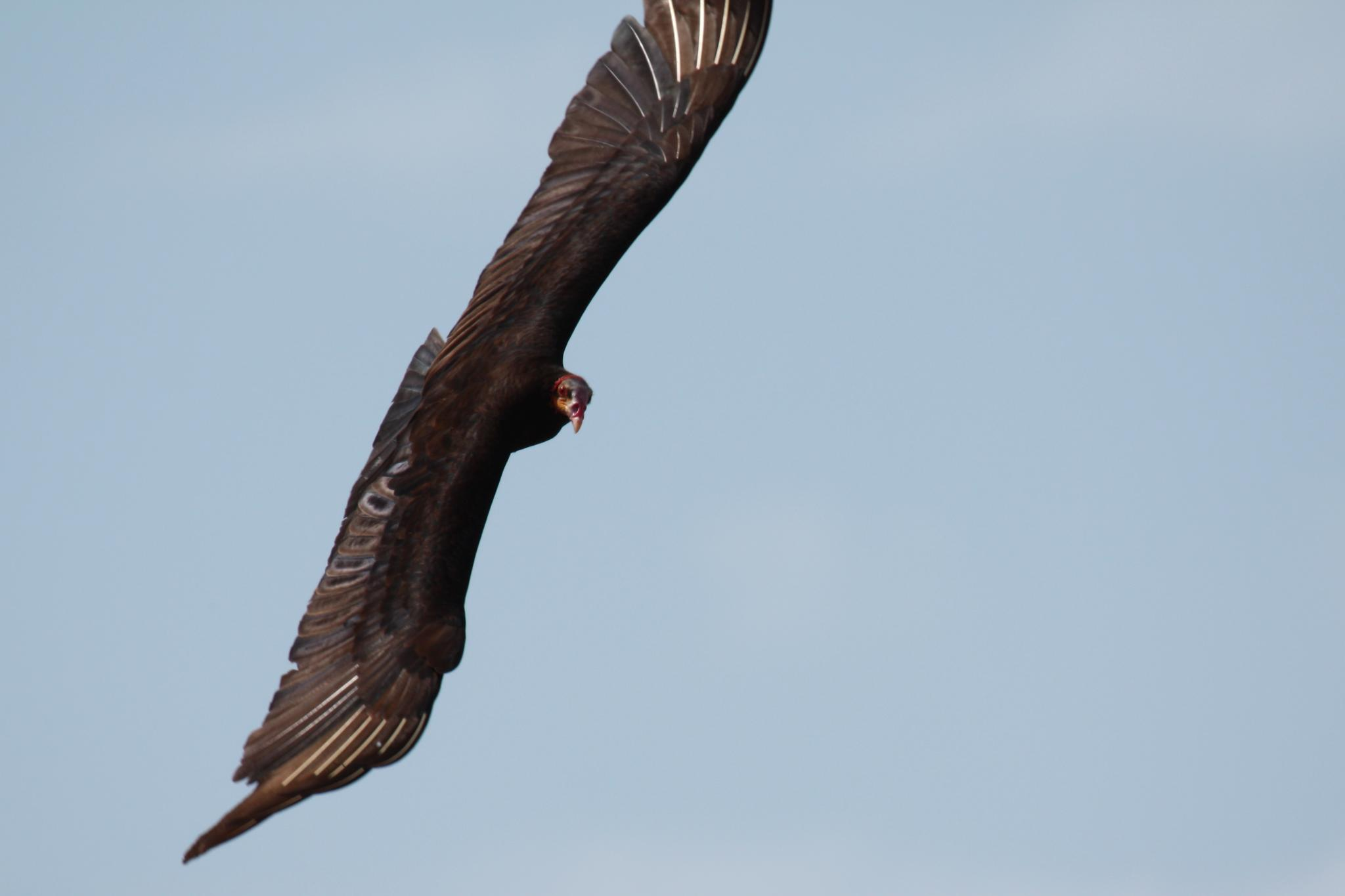 Lesser Yellow-headed Vulture (Cathartes burrovianus) in Mexico. Sadly I managed to clip the wings in this shot but it does show the field mark white primary shafts on the upper wing.